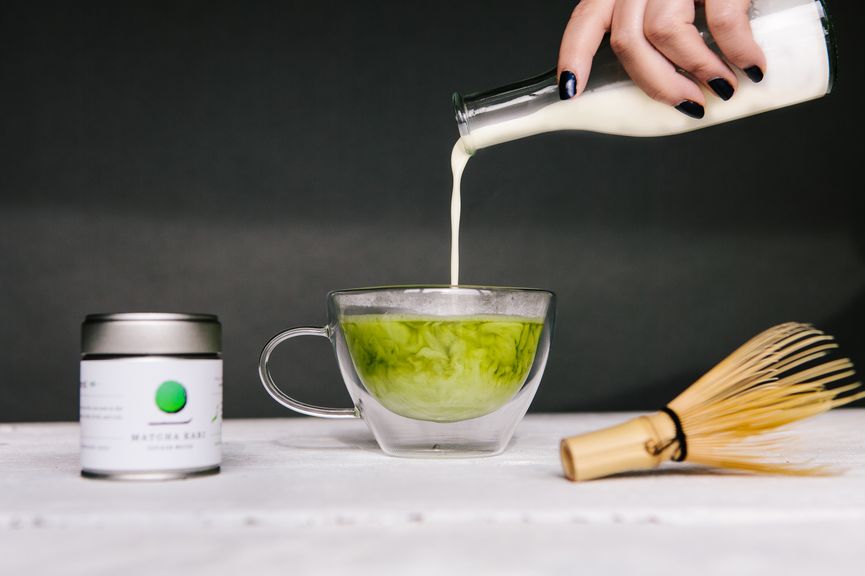 MatchaKari can be used in smoothies, lattes, and baked goods.